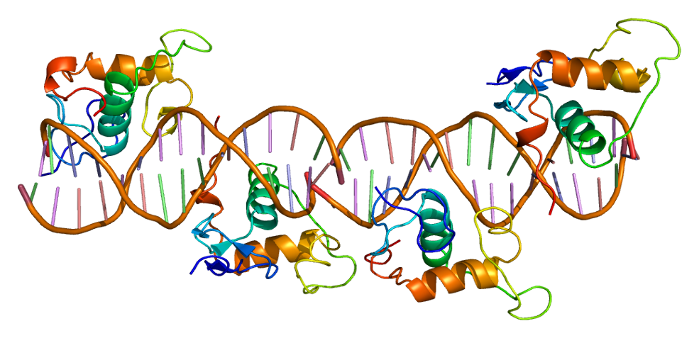 Structure of the RXRG protein. Based on PyMOL rendering of PDB 1by4.